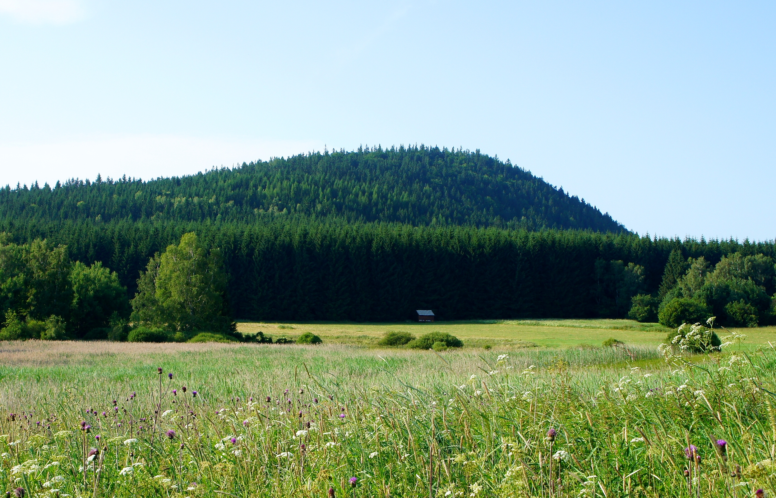 The Kraví hora mountain raising over Hojná Voda (South Bohemian Region, Czech Republic).